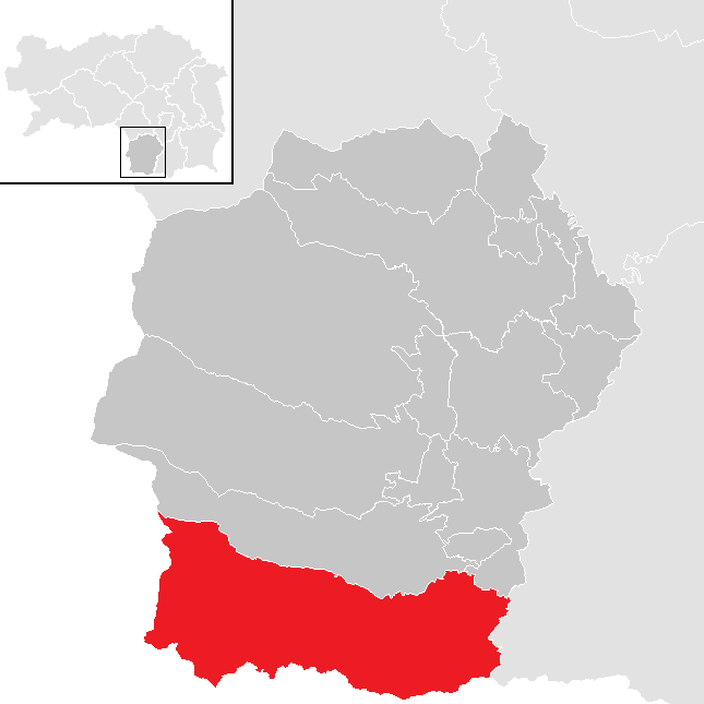 District Deutschlandsberg, Styria, Austria